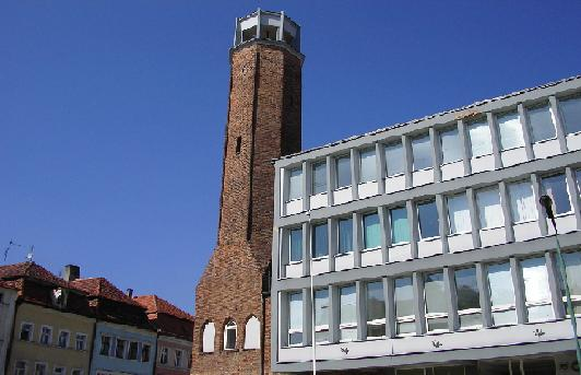 Cityhall in Kożóchów